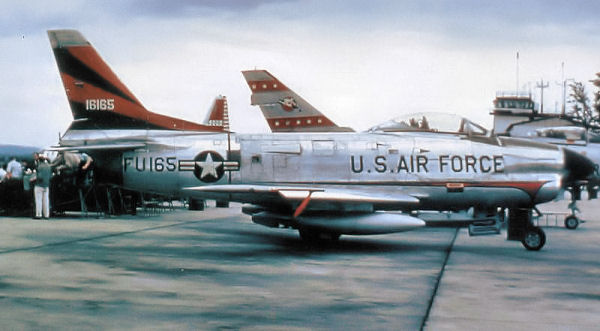 F-86D of the 526th Fighter-Inteceptor Squadron - 86th FIS - Ramstein AB Germany